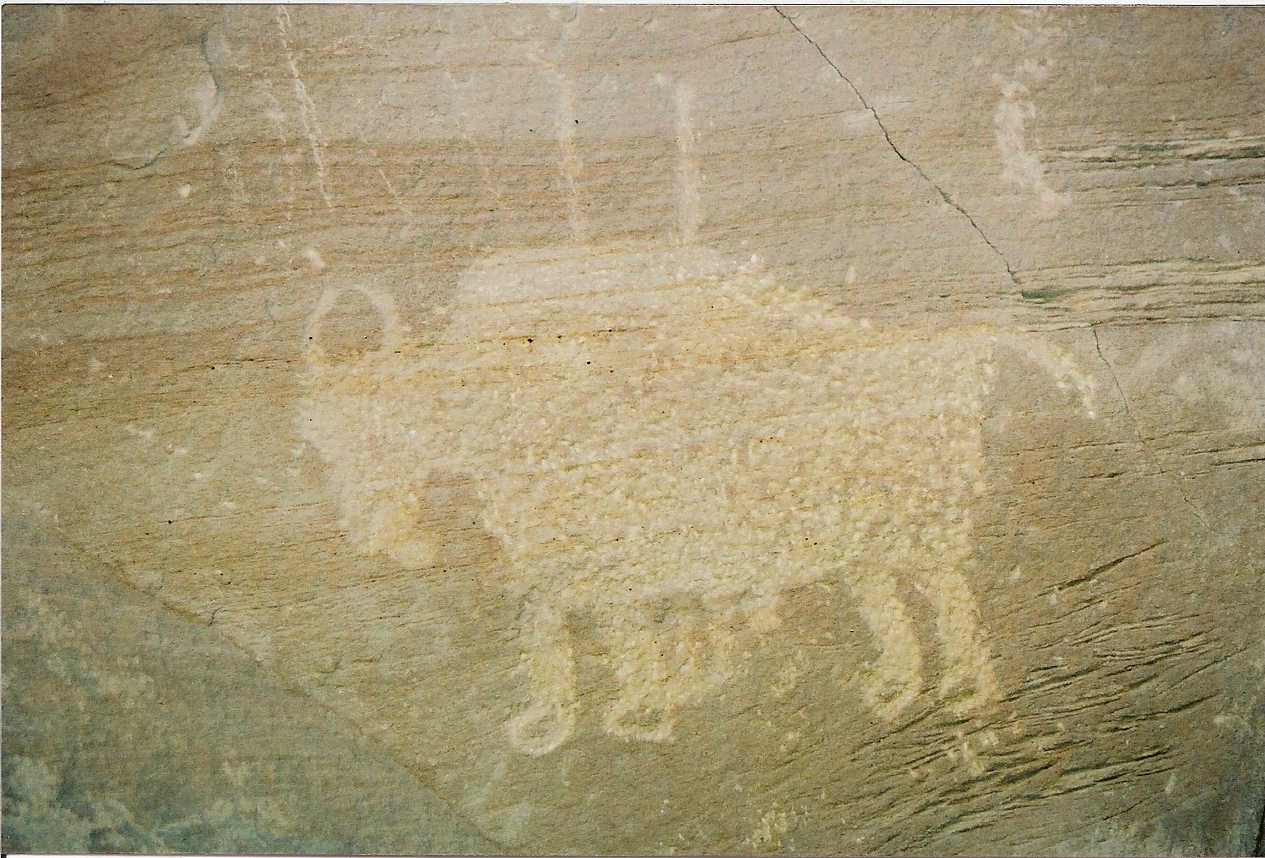 Ute petroglyph of a bison in Nine Mile Canyon, Utah.